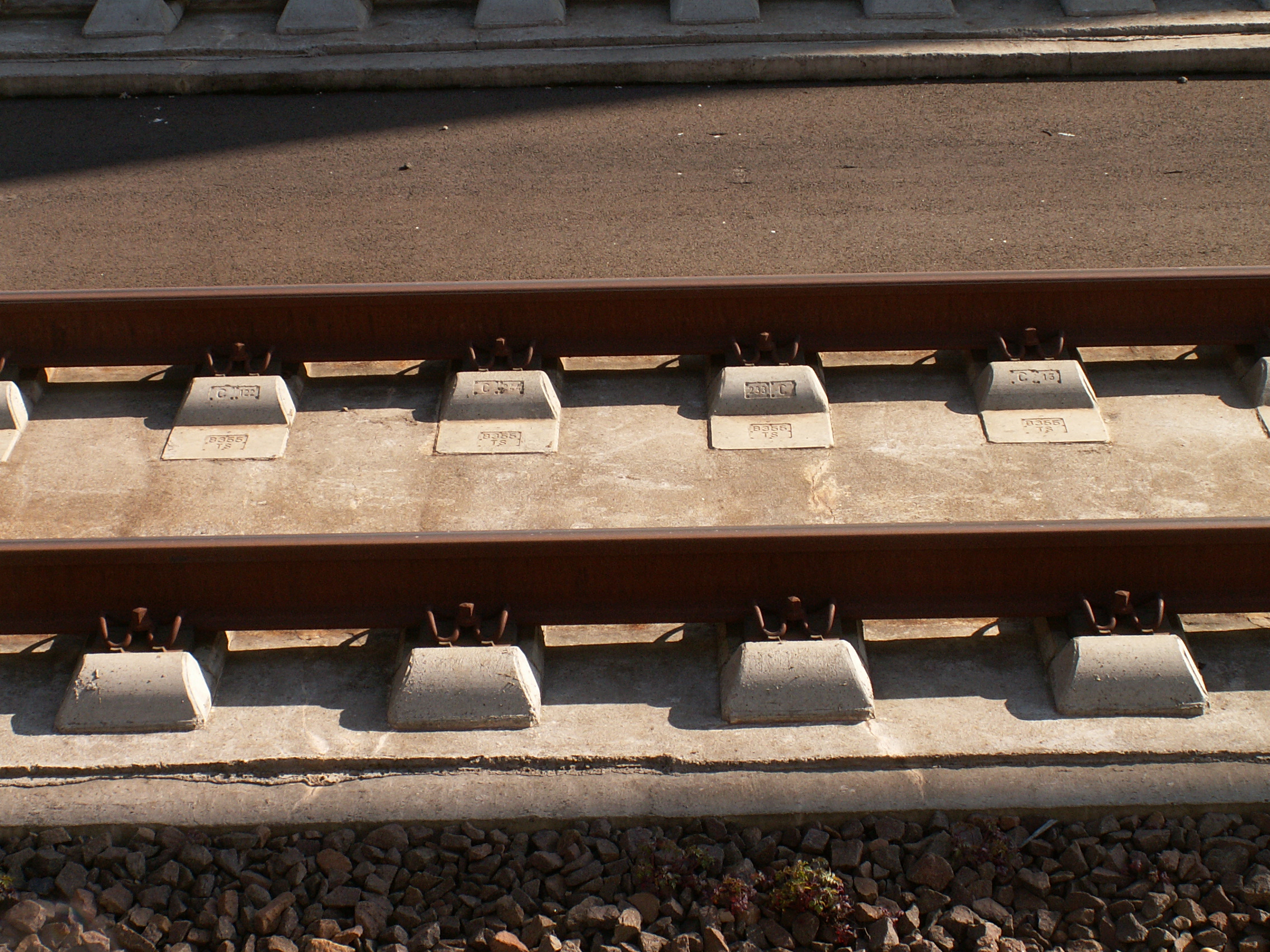 Rails on slab track at the Leipzig/Halle airport train station, Germany.